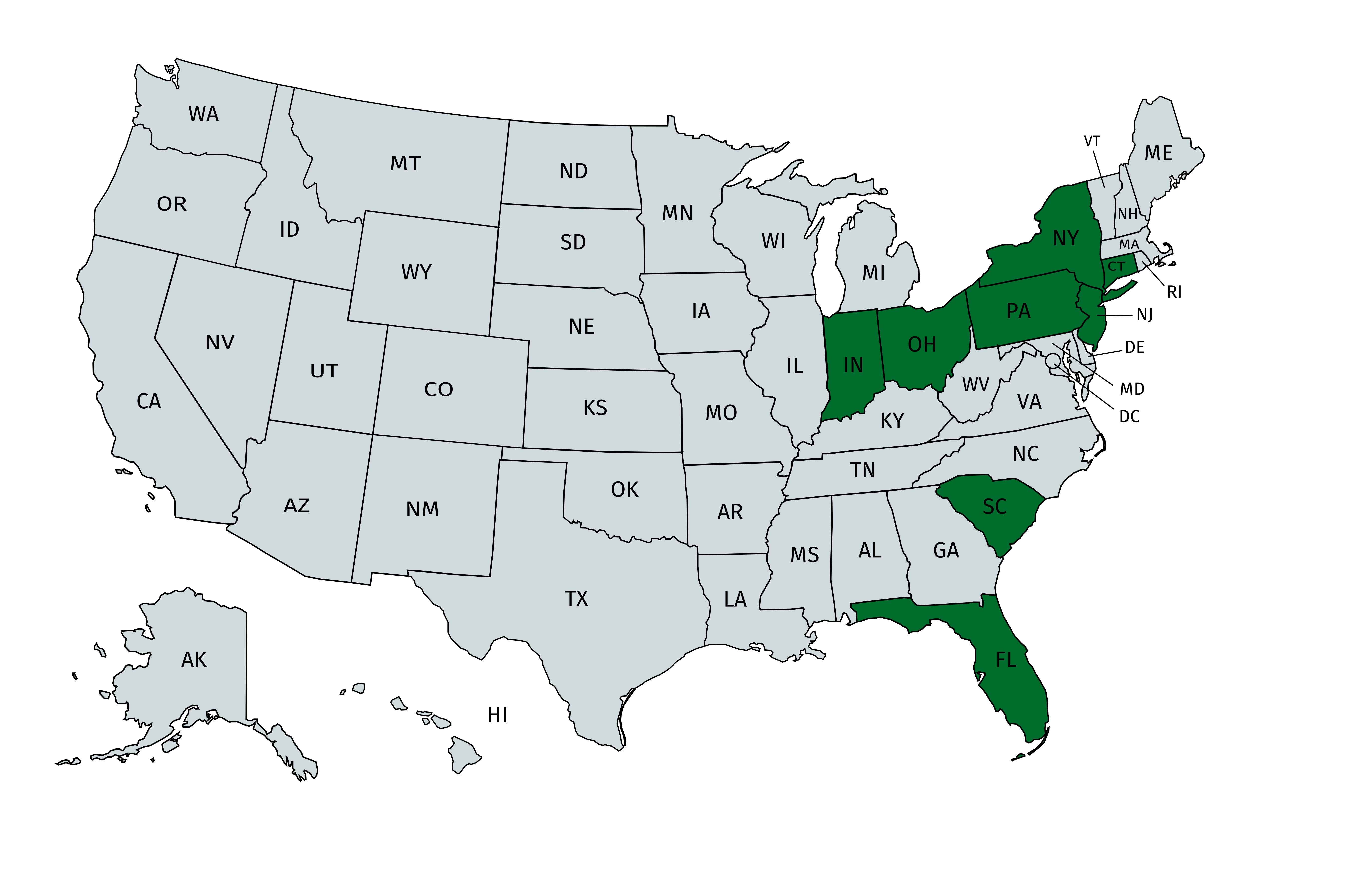 Map showing states represented at the 1949 Little League World Series, which was held from August 24 to August 27 in Williamsport, Pennsylvania.